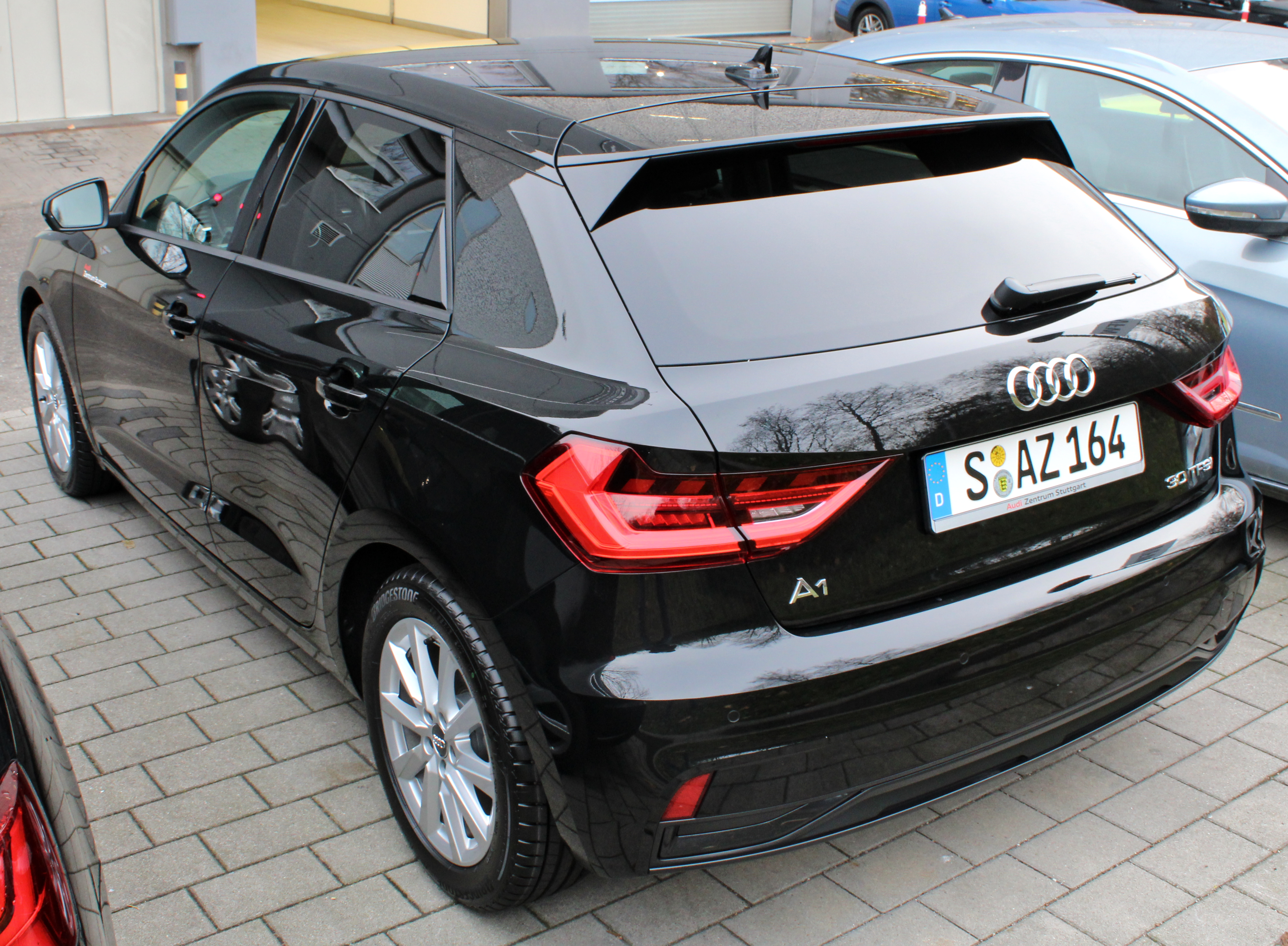 Audi A1 30 TFSI in Stuttgart-Vaihingen